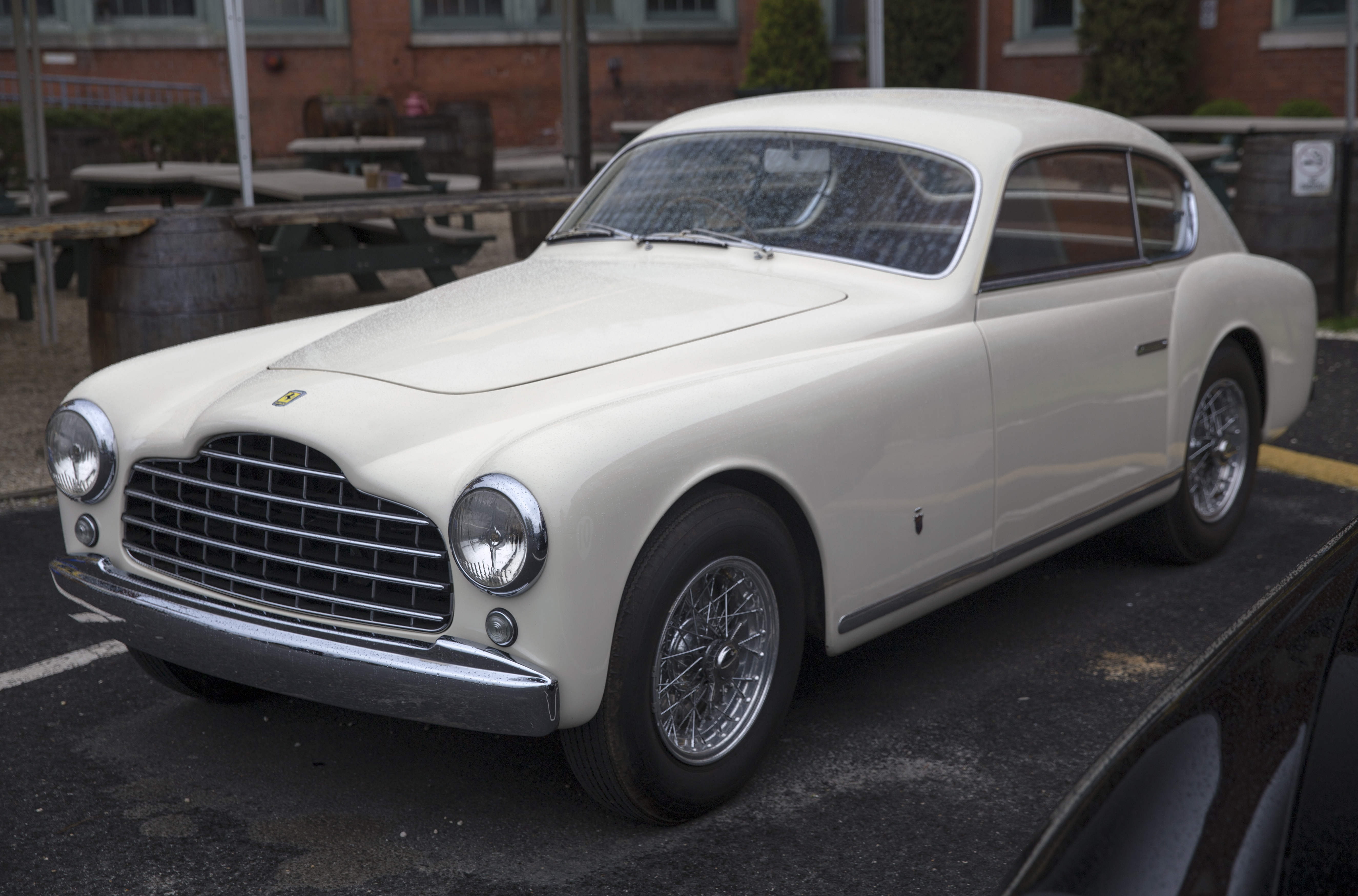 Luigi Villoresi's 1951 Ferrari 195 Inter at a "Pints & Pistons" event in Stratford, CT. He didn't like the 212, so he had a 166 engine bored out to 2.6 liters. It has a special three-Weber setup and various other engine touches. Bodied by Ghia.